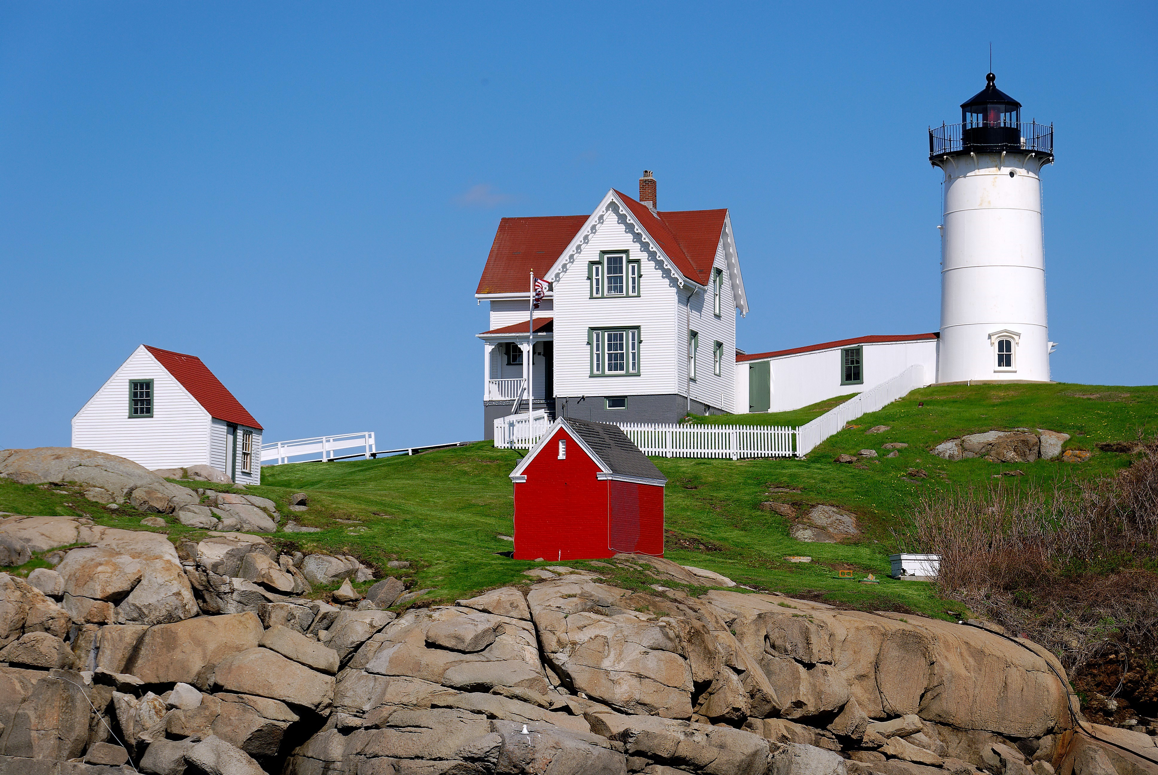 Cape Neddick ("Nubble") Lighthouse, York Beach, Maine, U.S.A.